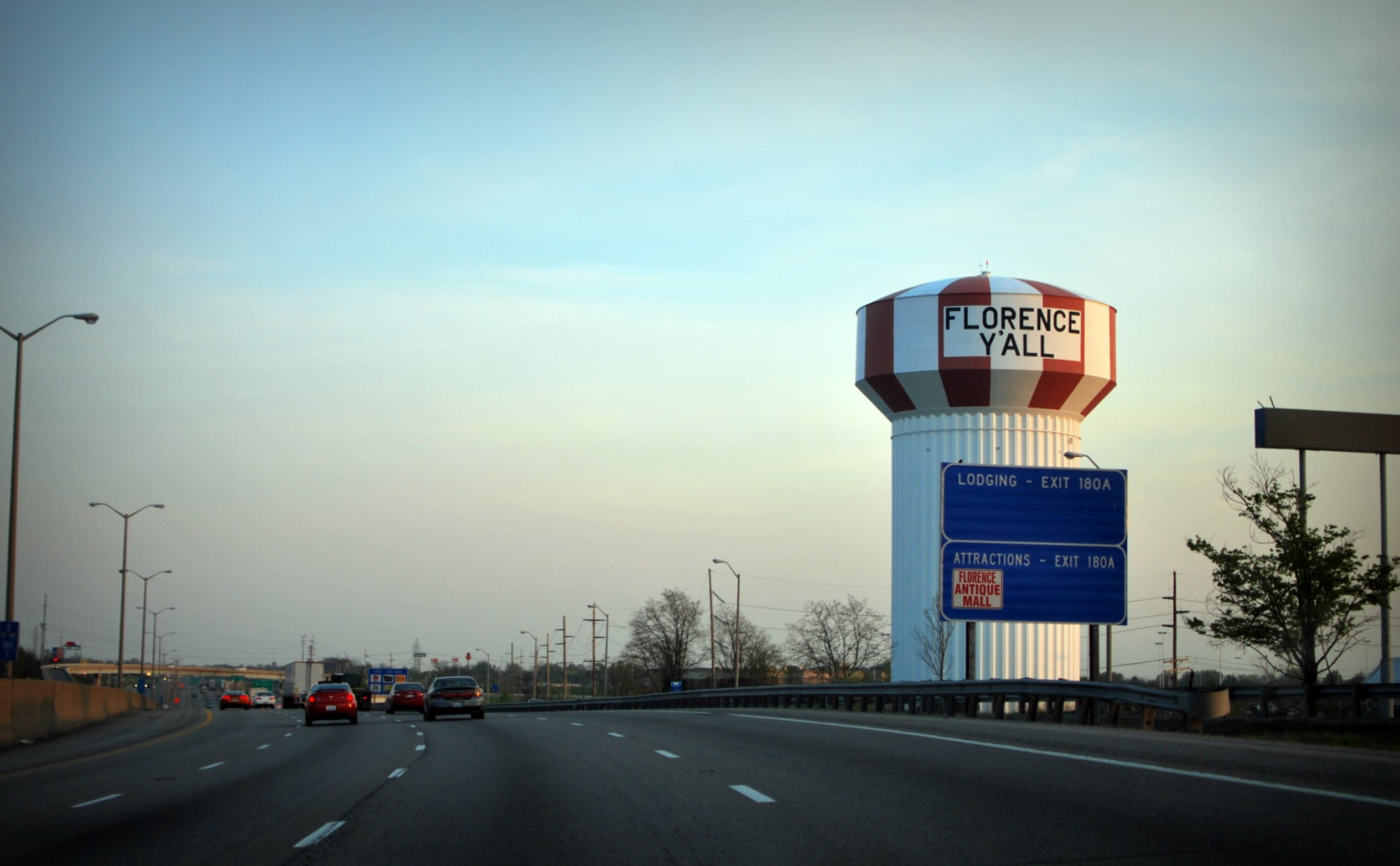 Obligatory Florence water tower shot.